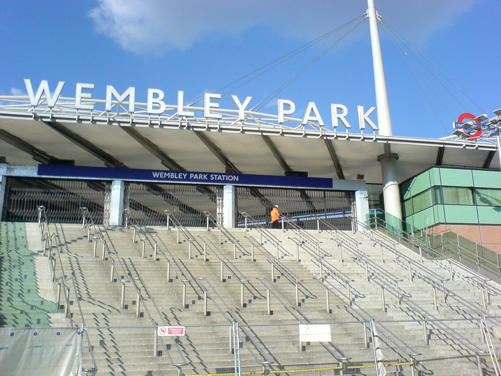 Stairs and entrance to Wembley Park tube Station.